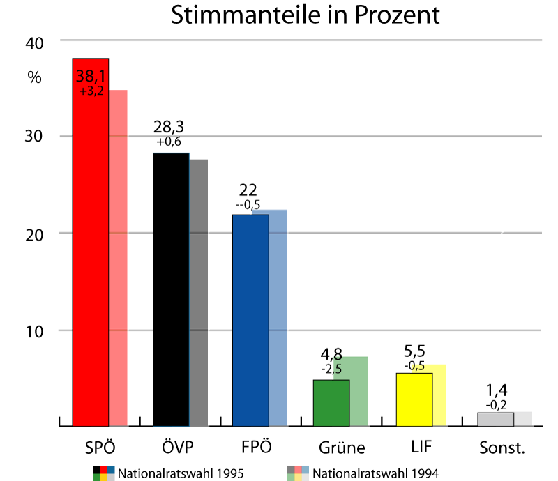 Results of the Austrian legislative Election 1995 in percentages compared with the election 1994